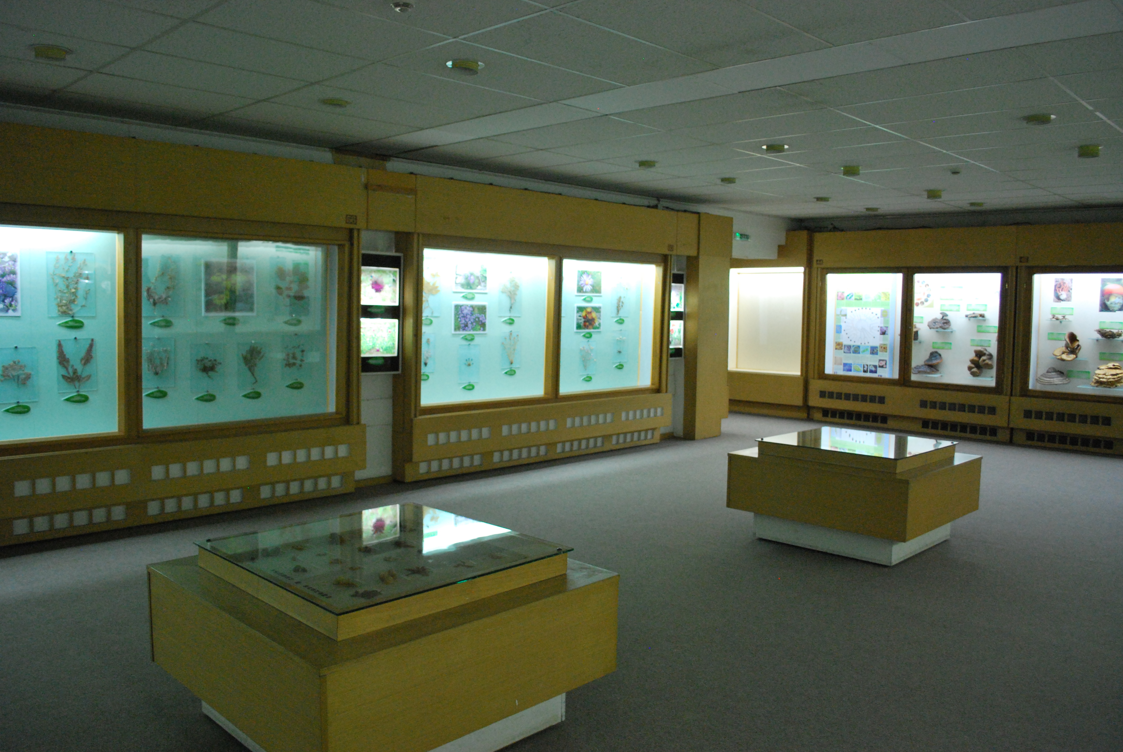 Macedonian Museum of Natural History in Skopje, Macedonia